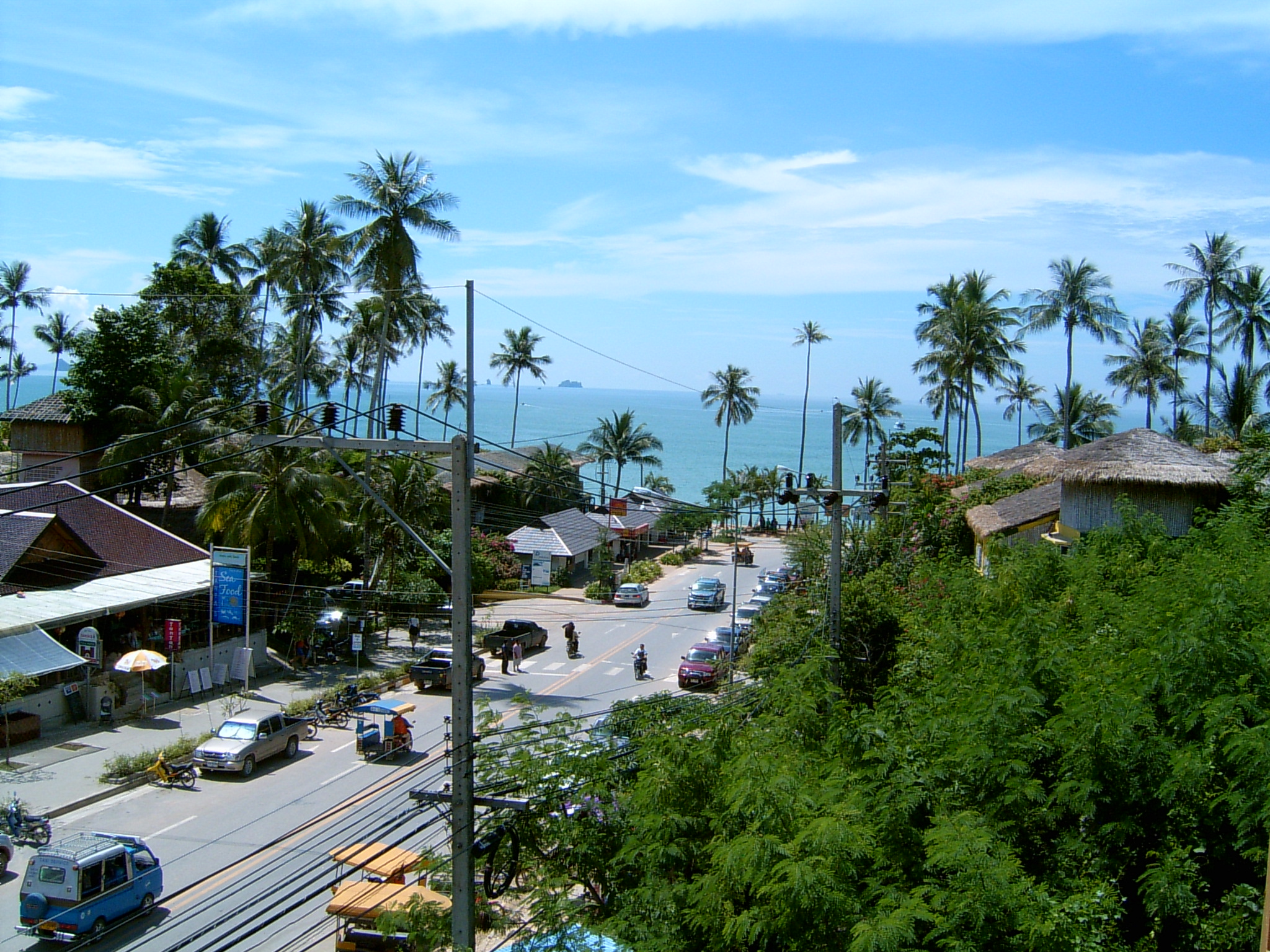 Ao Nang i southern Thailand.